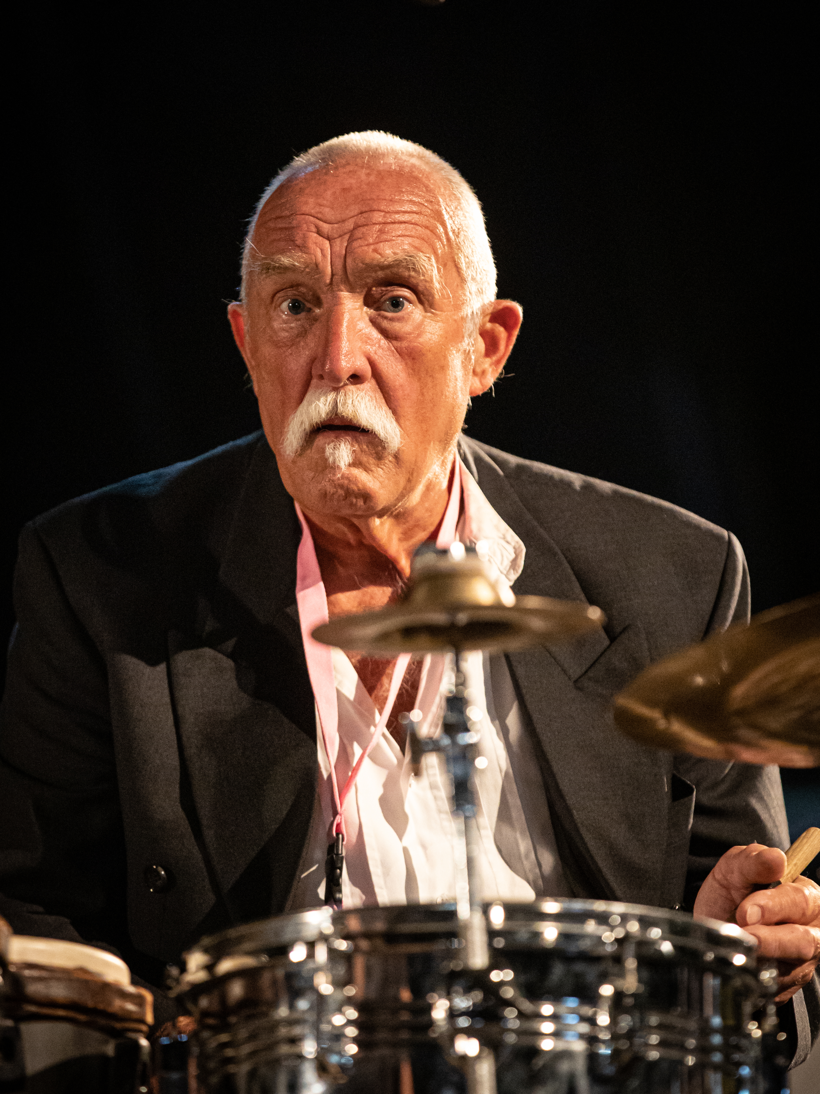 Jazz musician Günter Sommer at the Moers Festival 2019